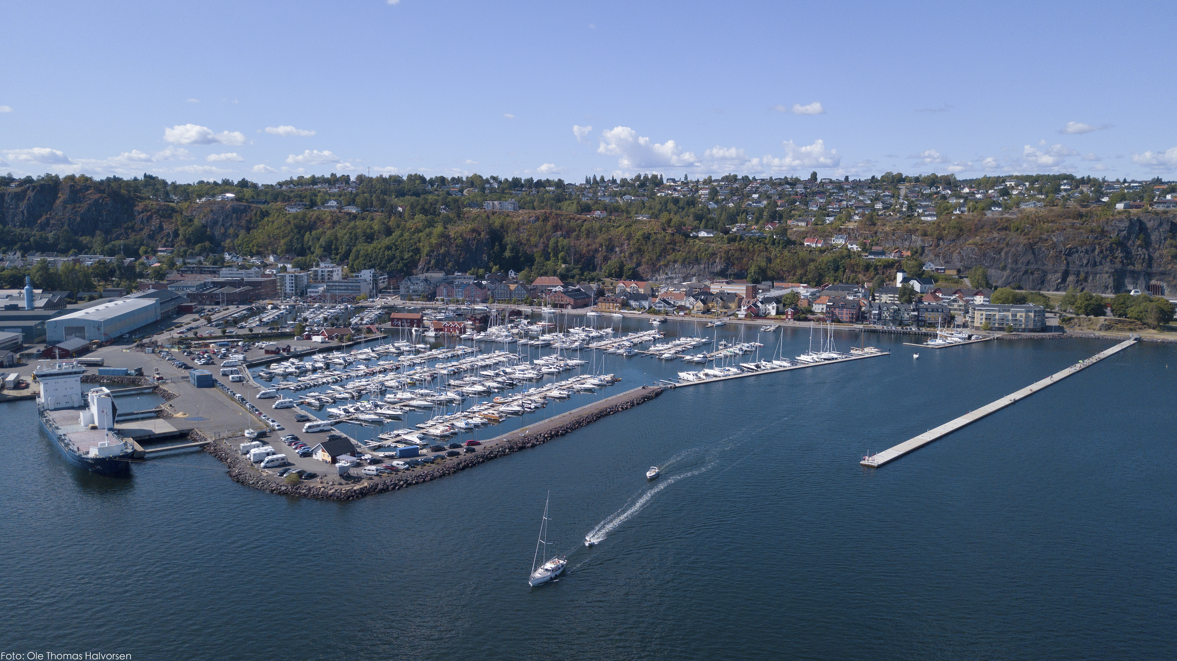 Holmestrand 2018